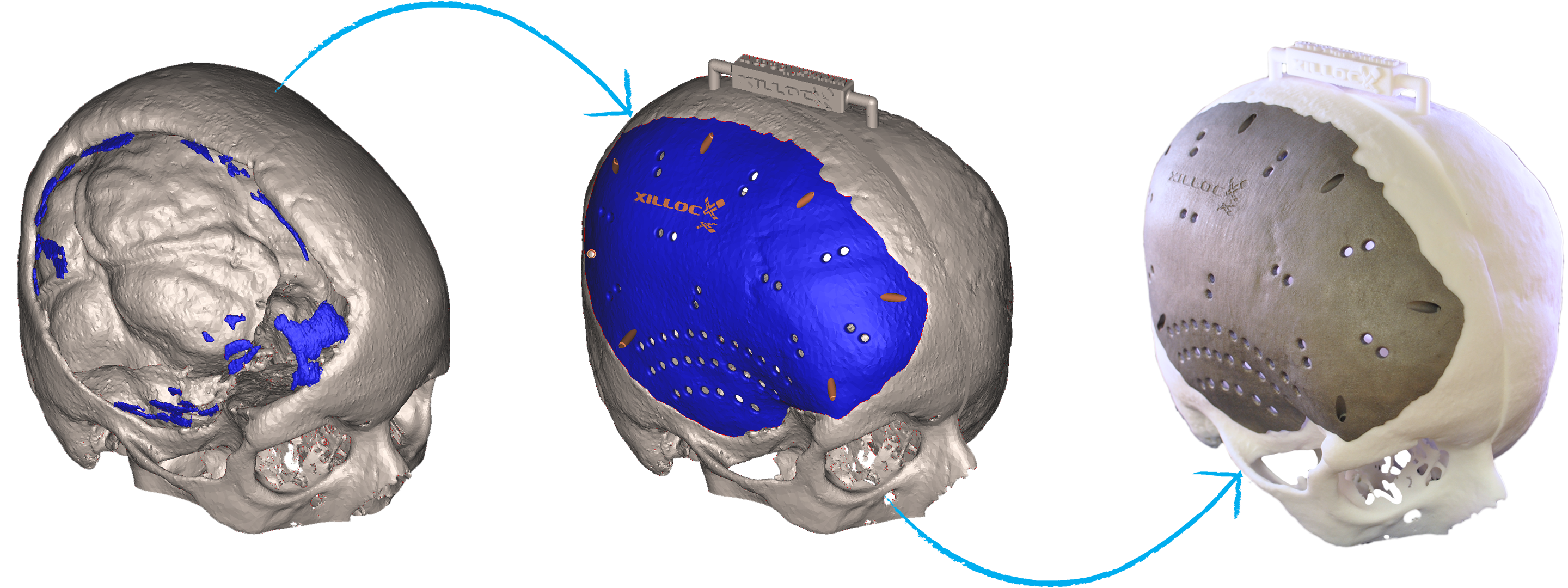 From CT-Scan to CAD design to 3D printed Titanium Cranial Implant